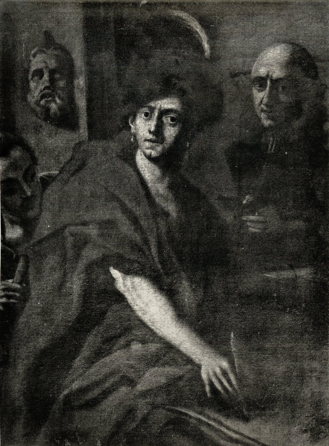 Self-portrait of Cosmas Damian Asam featuring his brother Egis Quirin Asam